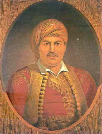 Portrait of Hatzimichalis Dalianis (1775-1827), revolutionary leader of the Greek War of Independence (1821-1830)